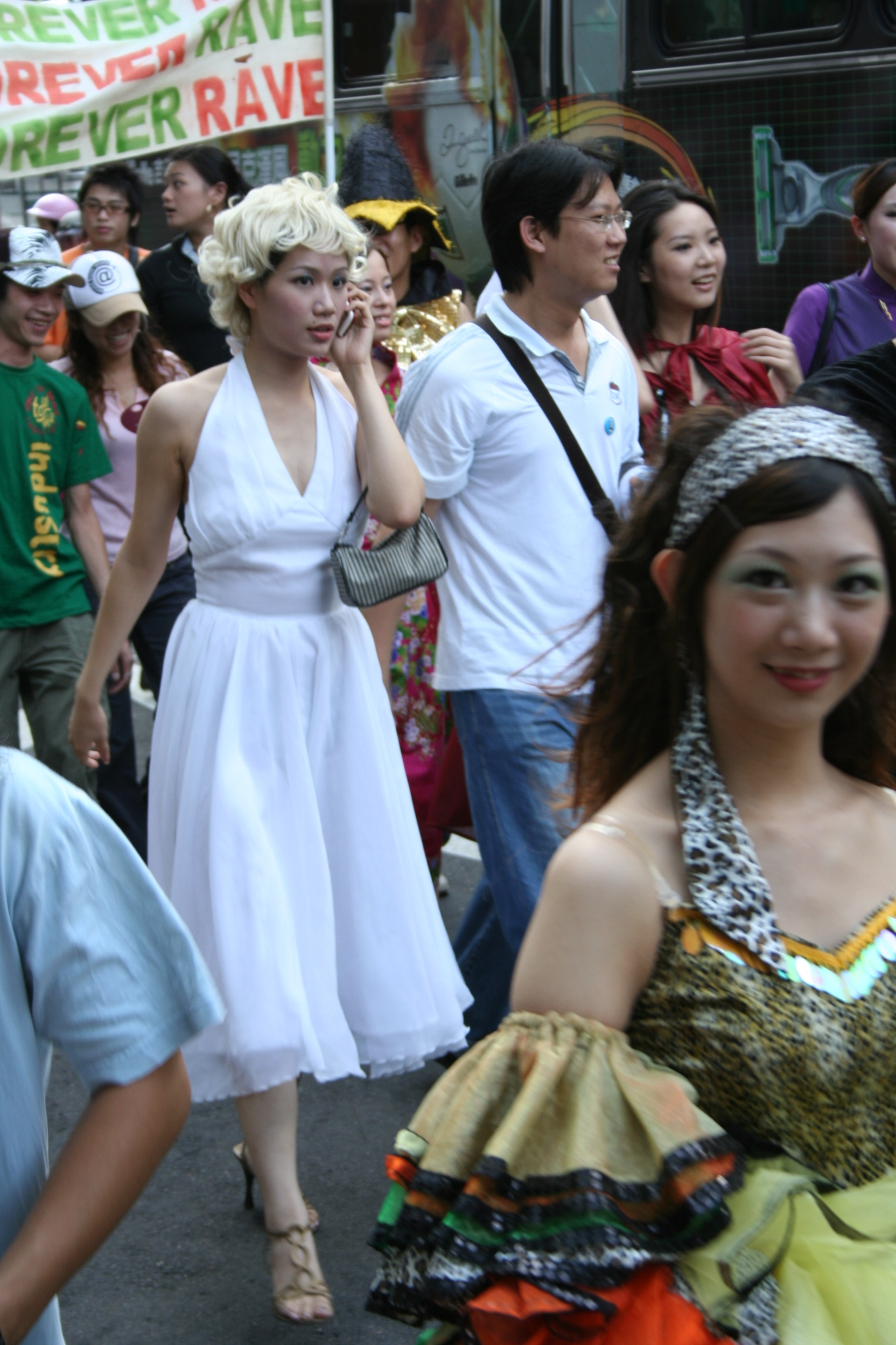 Drag queens on Taiwan Pride 2005 Photo by AT Includes a Marilyn Monroe inpersonator. Performed by "Preformance Art Group"("表演藝術團"). 2005-10-01 14:57:56